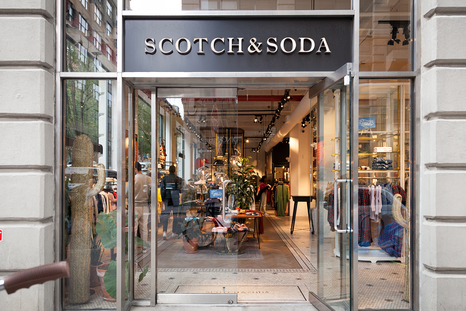 Scotch & Soda, 76 Front Street, Brooklyn NY (Photo gallery of DUMBO, Brooklyn)